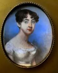 Portrait of early 19th century photographer Sarah Anne Bright (1793-1866)